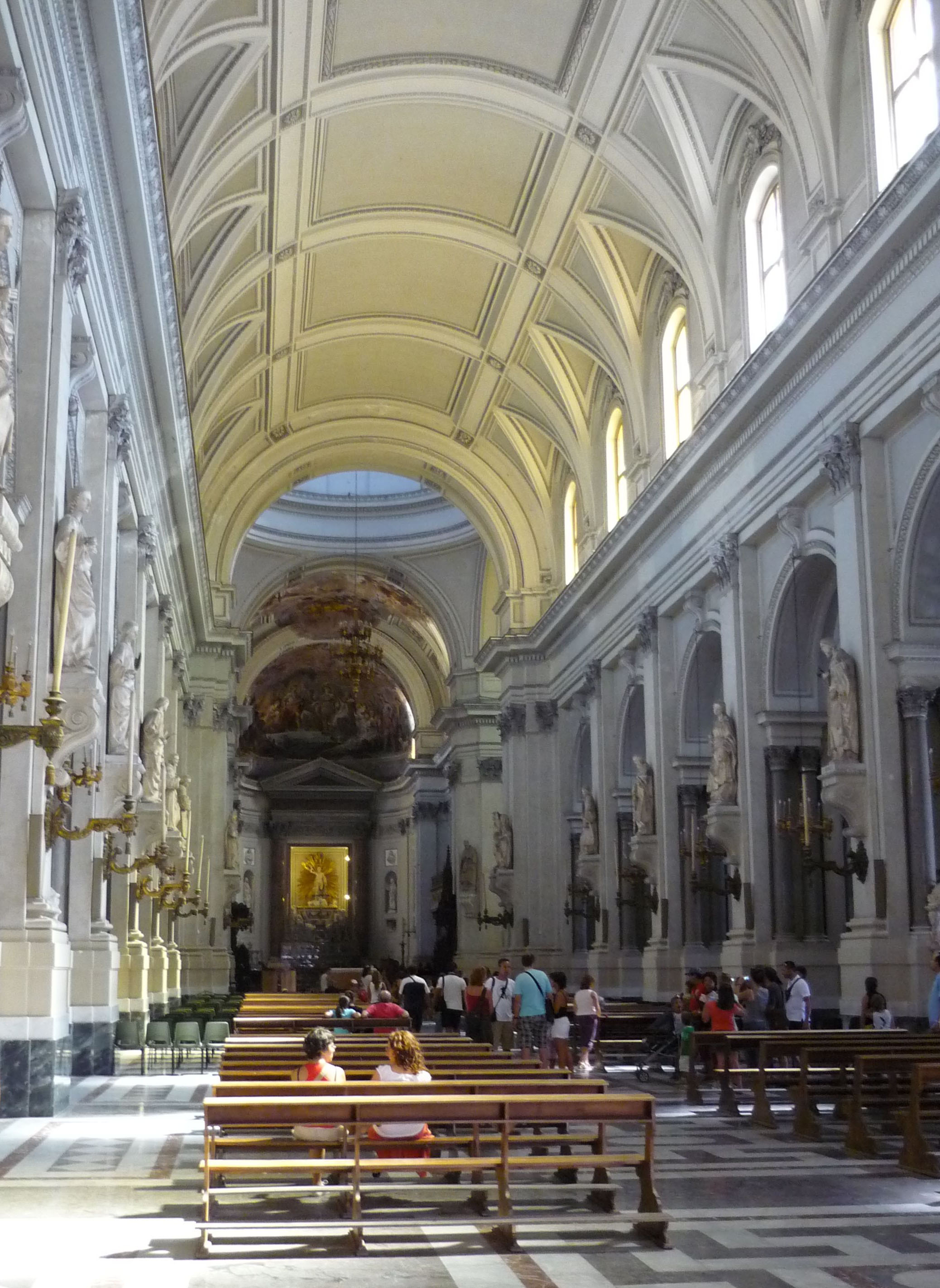 Interior of the Palermo Cathedral